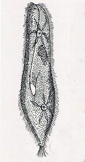 The ciliated protozoan Paramecium caudatum, as drawn by Alfred Kahl.